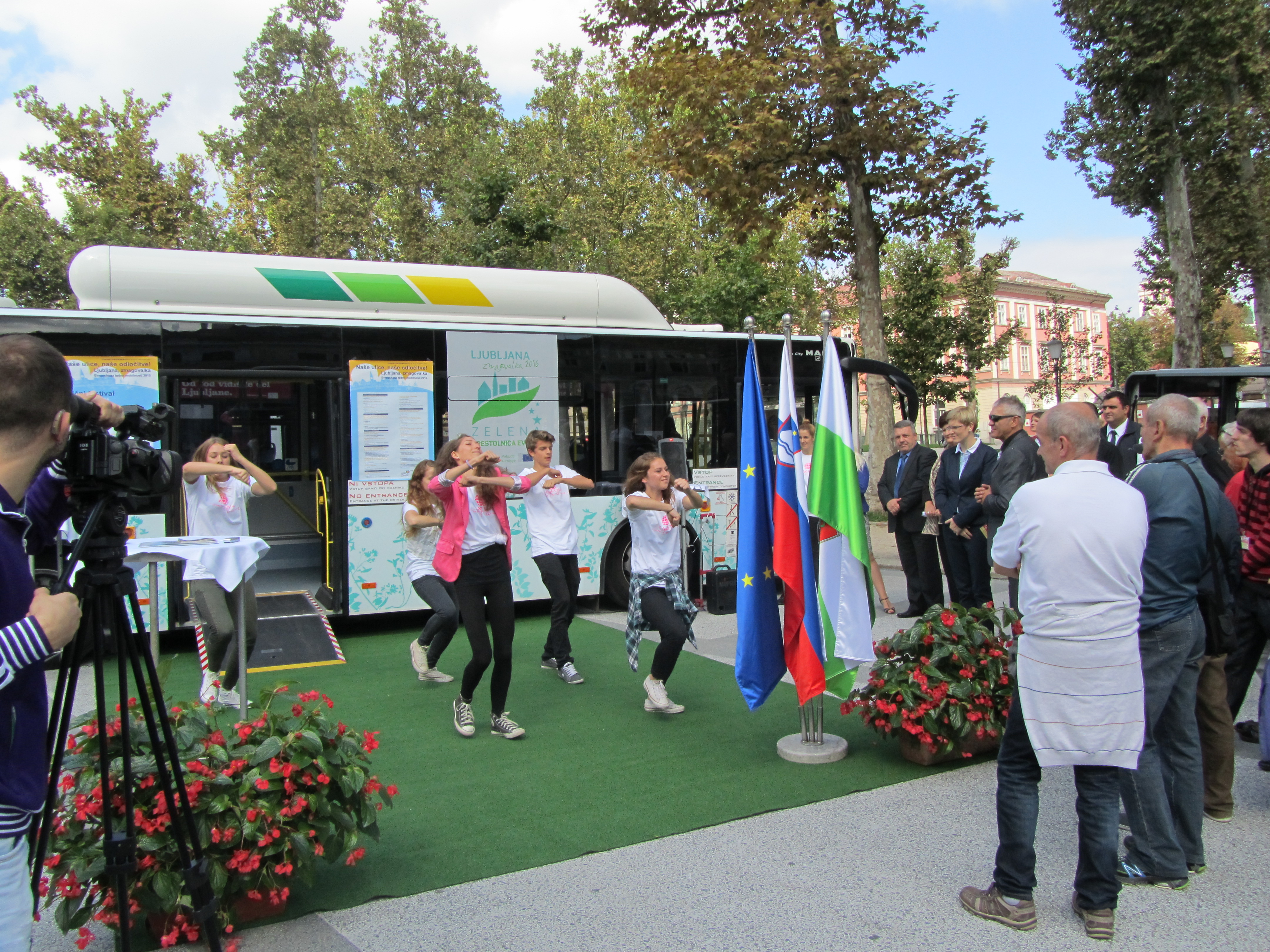 Dancing to celebrate Ljubljana's win as European Green Capital 2016 during European Mobility Week.